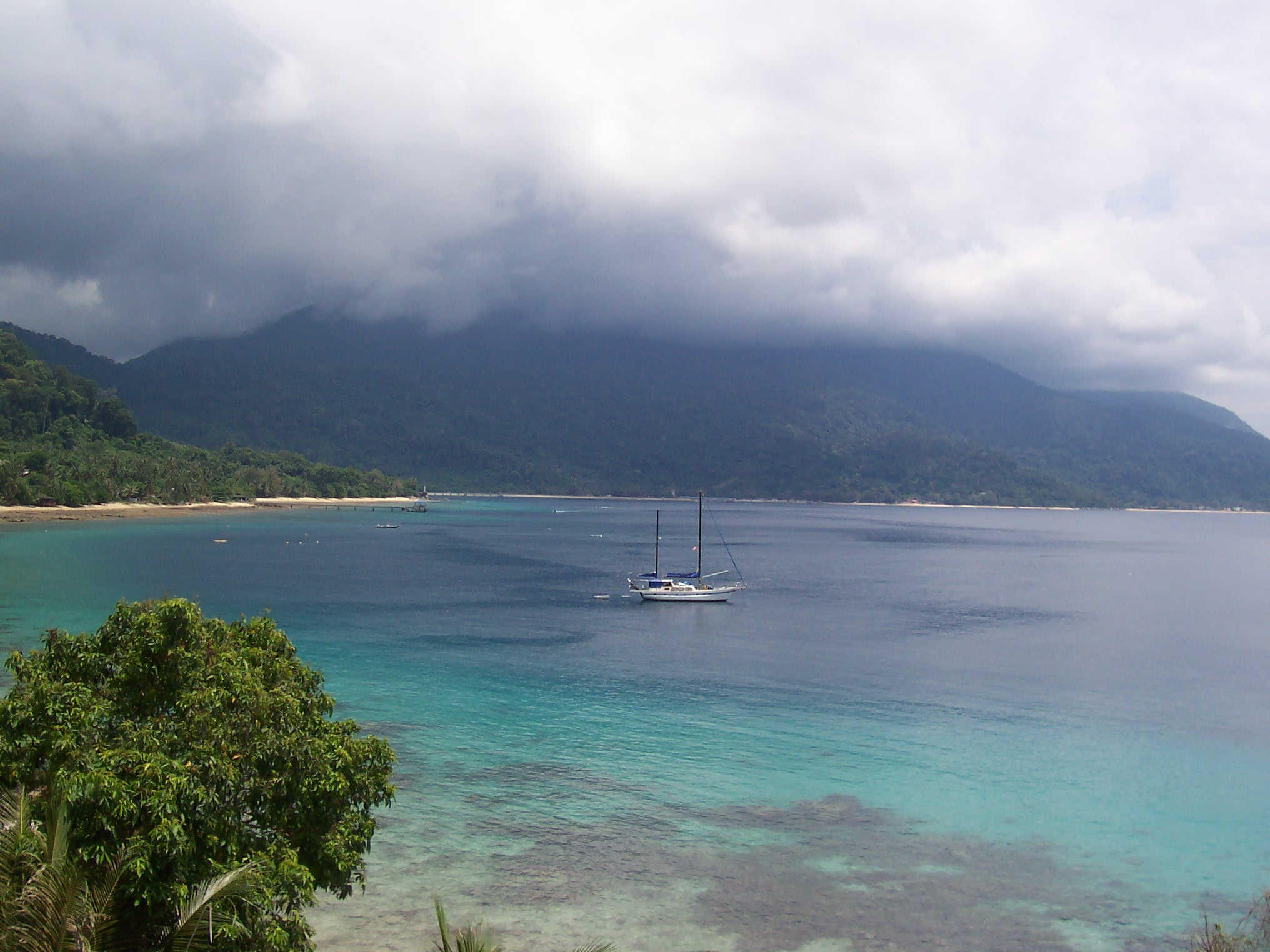 personal picture taken from panuba bay